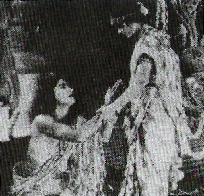 A still picture from the 1931 Tamil film Kalidas.